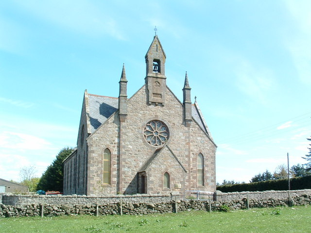 Cookney Church, Aberdeenshire, built 1885